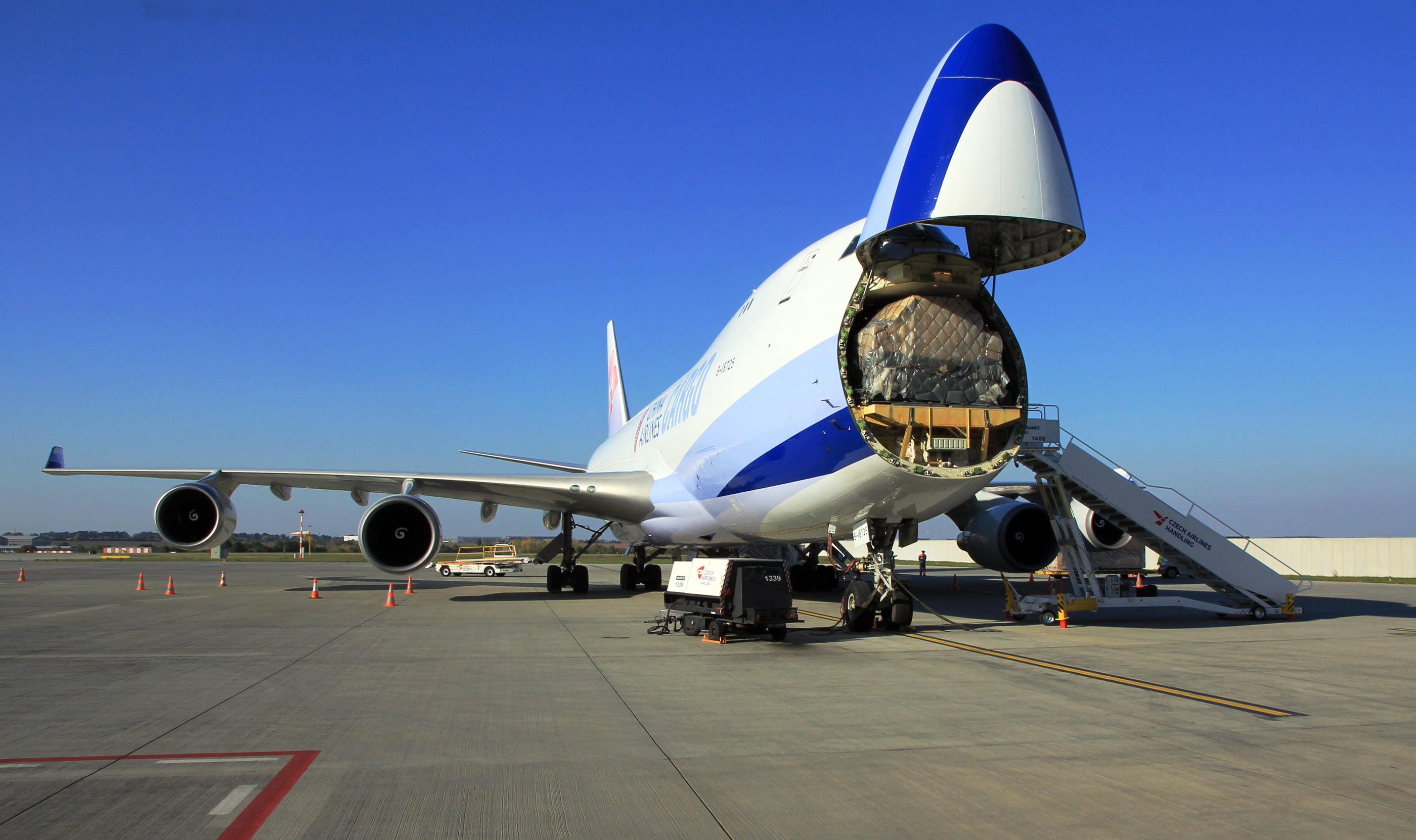 Cargo aircraft Boeing 747-400F loading cargo on Václav Havel Airport Prague, Czech Republic